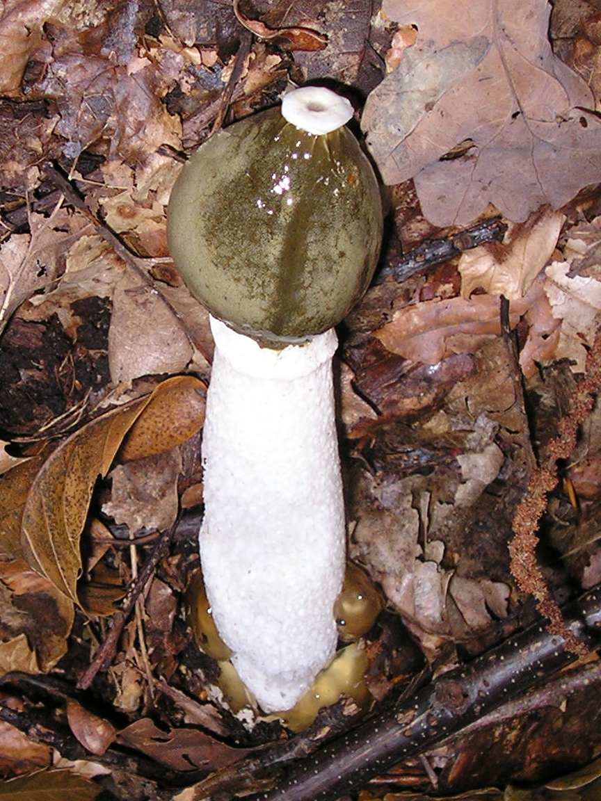 Phallus impudicus (Common Stinkhorn) in a French wood.